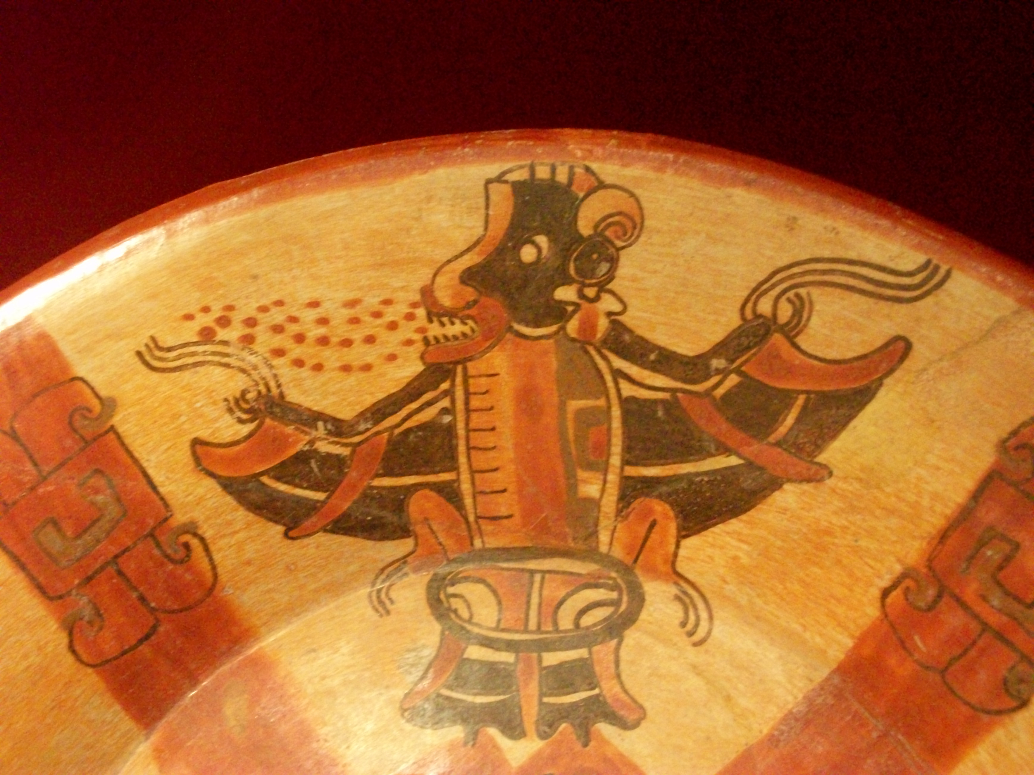 Mayan underworld bat. Policromed ceramic plate. Mayan culture. Classic Period (320 - 987 a.C.). Balamkú, Campeche. Museum of Fuerte de San Miguel, Campeche, Mexico